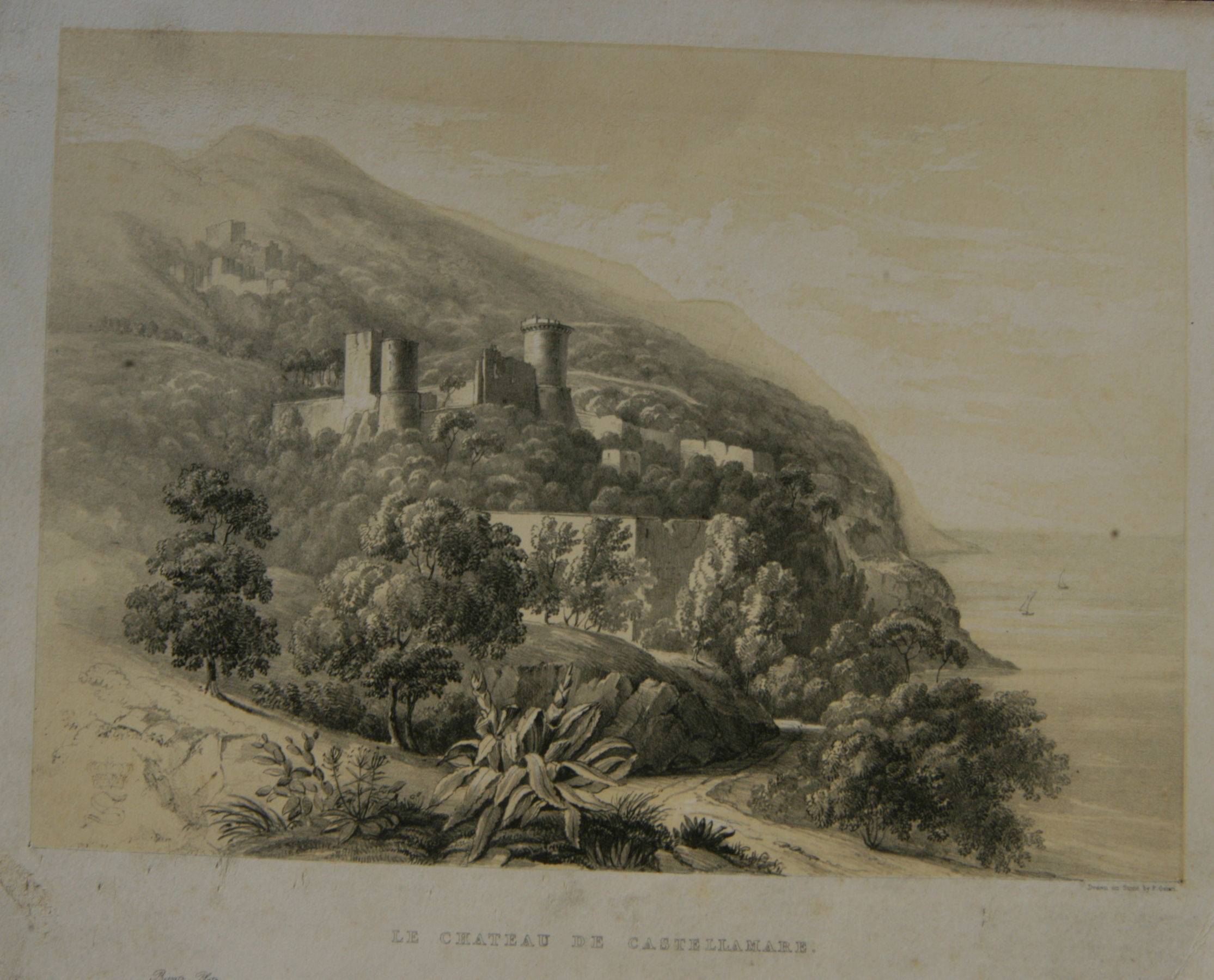 Scan (by me, R. de Salis, Rodolph (talk) 17:03, 11 January 2015 (UTC)) of a lithograph of Chateau de Castellamare, drawn by Paul Gauci.